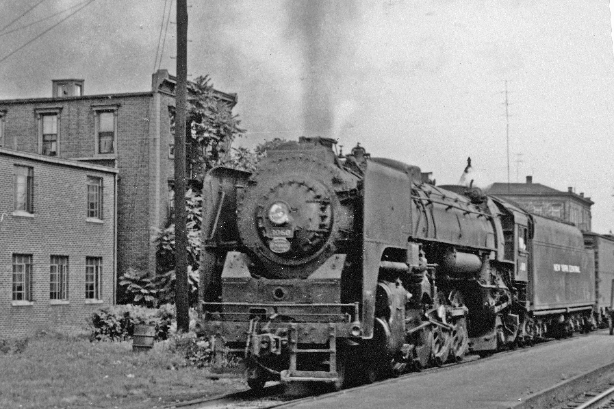 Eastbound freight with a NYC 4-8-2 at Crestline (Ohio).